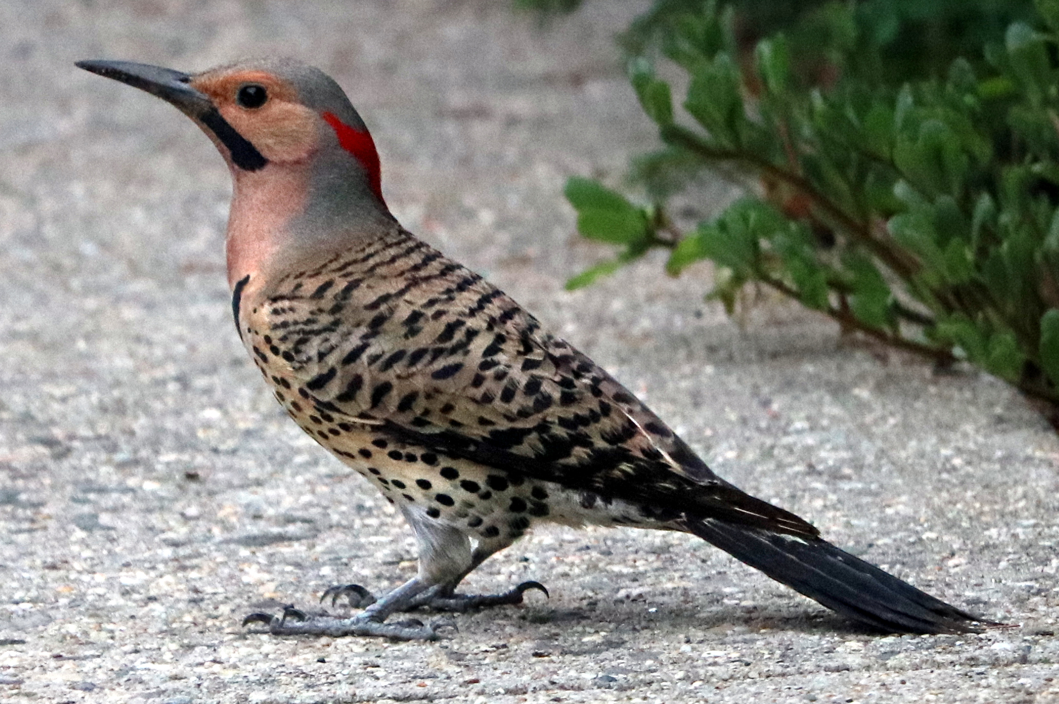 Northern flicker, Roslyn